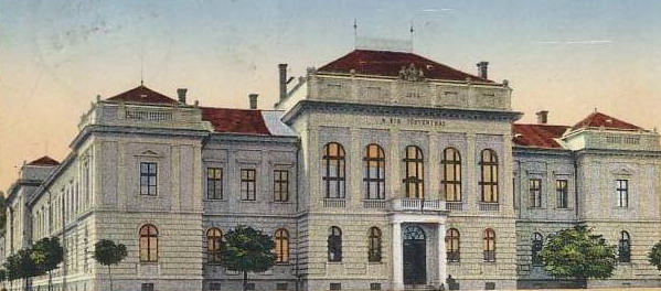 Palace of Justice in Dej (1894), seen in an early 20th century picture.